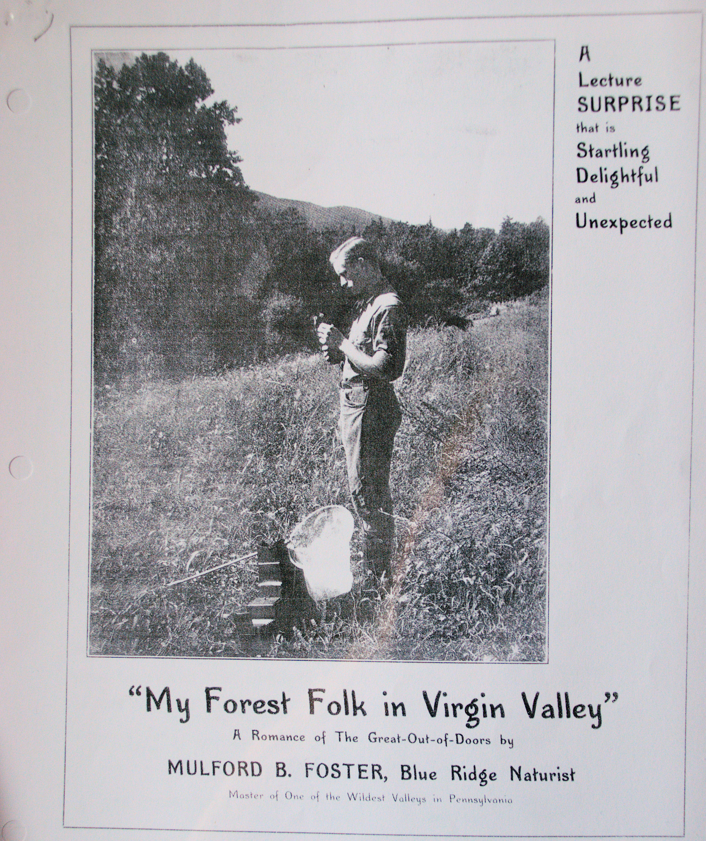 Picture taken of the brochure advertising the lectures given by Mulford Foster.